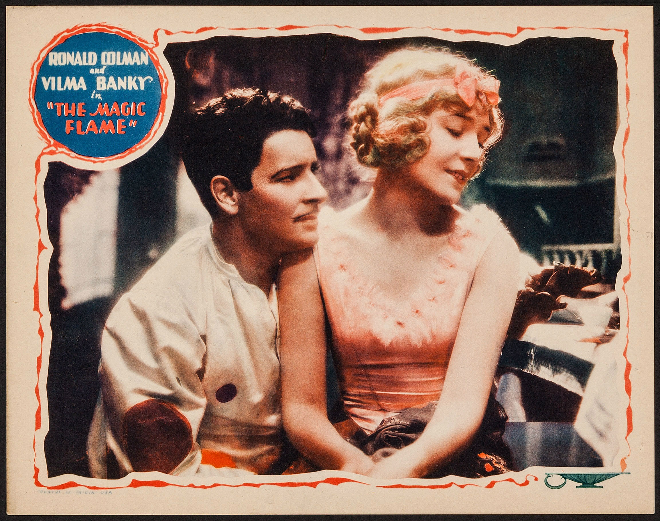 Lobby card for the American film The Magic Flame (1927). The item has no copyright markings on it as can be seen in the links above. At bottom left is Country of origin USA.